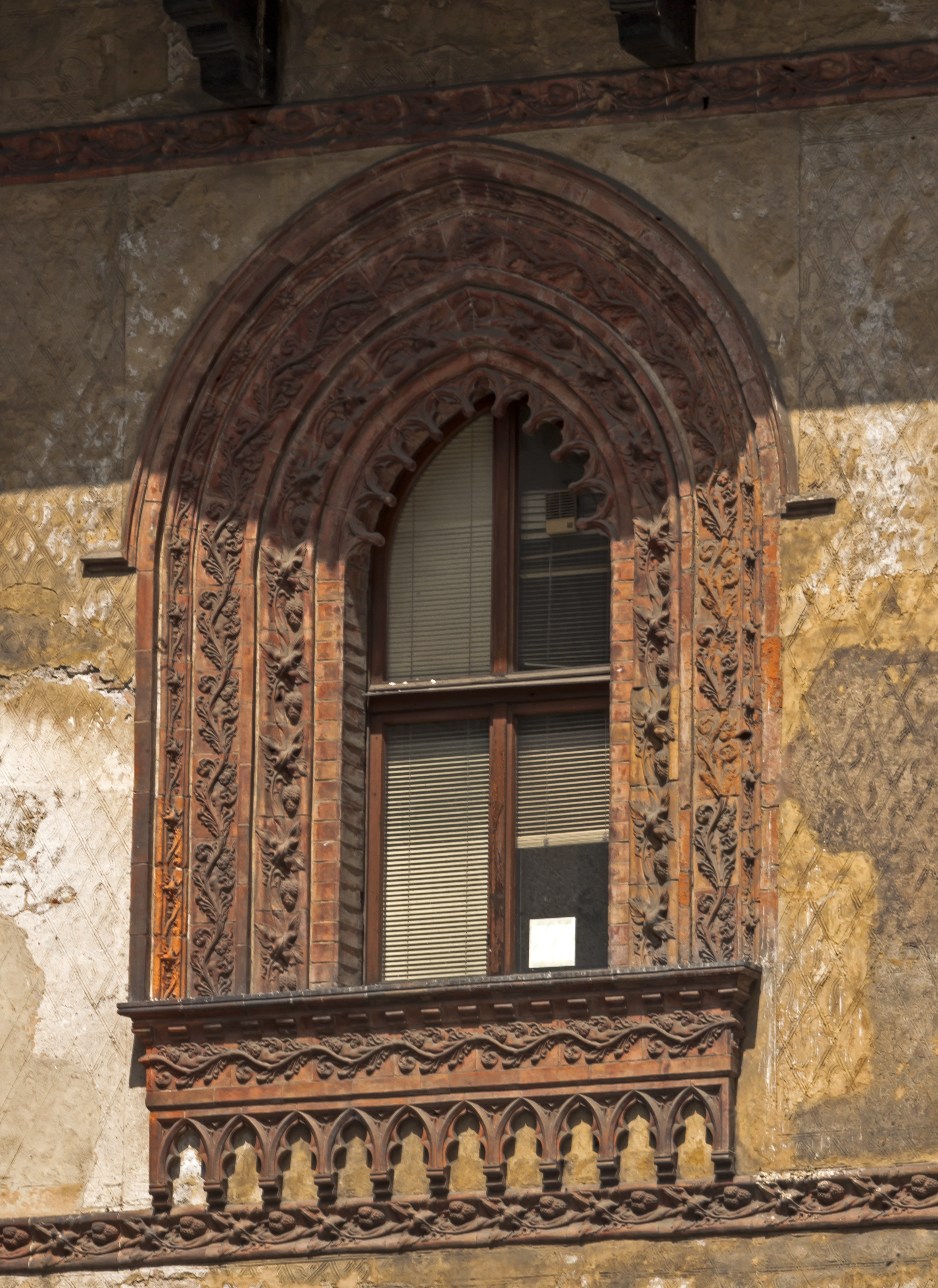 Gothic window on Casa Panigarola overlooking Piazza Mercati, Milan.